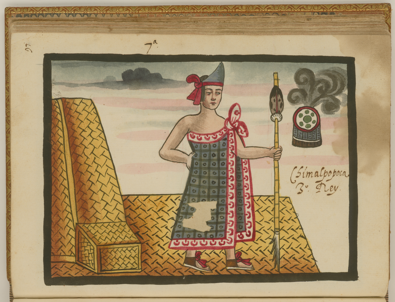 The Tovar Codex, attributed to the 16th-century Mexican Jesuit Juan de Tovar, contains detailed information about the rites and ceremonies of the Aztecs (also known as Mexica). The codex is illustrated with 51 full-page paintings in watercolor. Strongly influenced by pre-contact pictographic manuscripts, the paintings are of exceptional artistic quality. The manuscript is divided into three sections. The first section is a history of the travels of the Aztecs prior to the arrival of the Spanish. The second section is an illustrated history of the Aztecs. The third section contains the Tovar calendar, which records a continuous Aztec calendar with months, weeks, days, dominical letters, and church festivals of a Christian 365-day year. This illustration, from the second section, shows Chimalpopoca, holding a spear or scepter, standing on a reed mat and next to a basket-work throne. Above him is a smoking shield. Chimalpopoca (reigned 1417–27), whose name means smoking shield, was the third emperor of the Aztecs. He is depicted here dressed in the clothes of the highest priests. Aztecs; Chimalpopoca, flourished 1417–1427; Codex; Indians of Mexico; Indigenous peoples; Kings and rulers; Mesoamerica; Tovar Codex